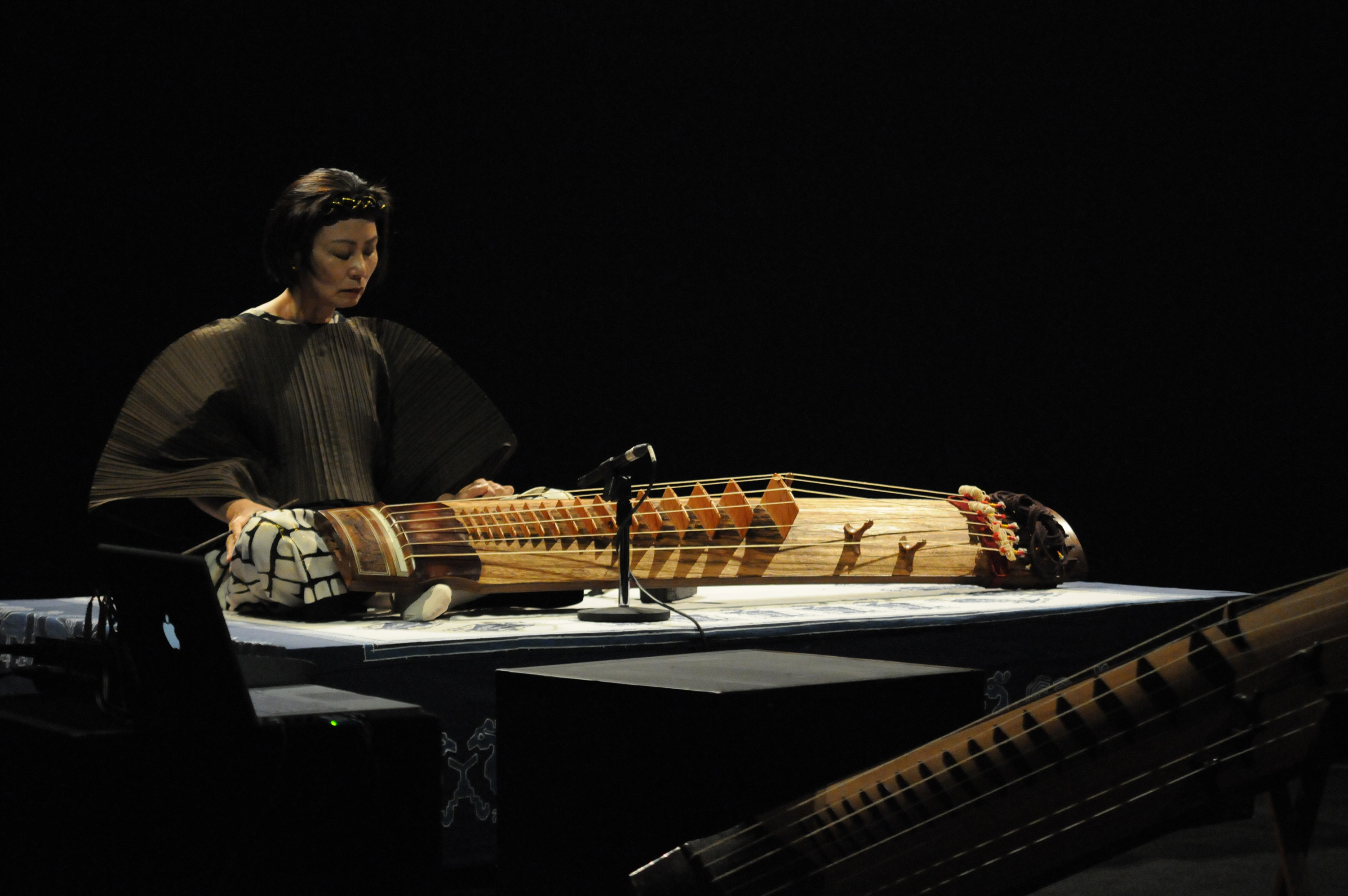 photo by Witjak Widhi Cahya